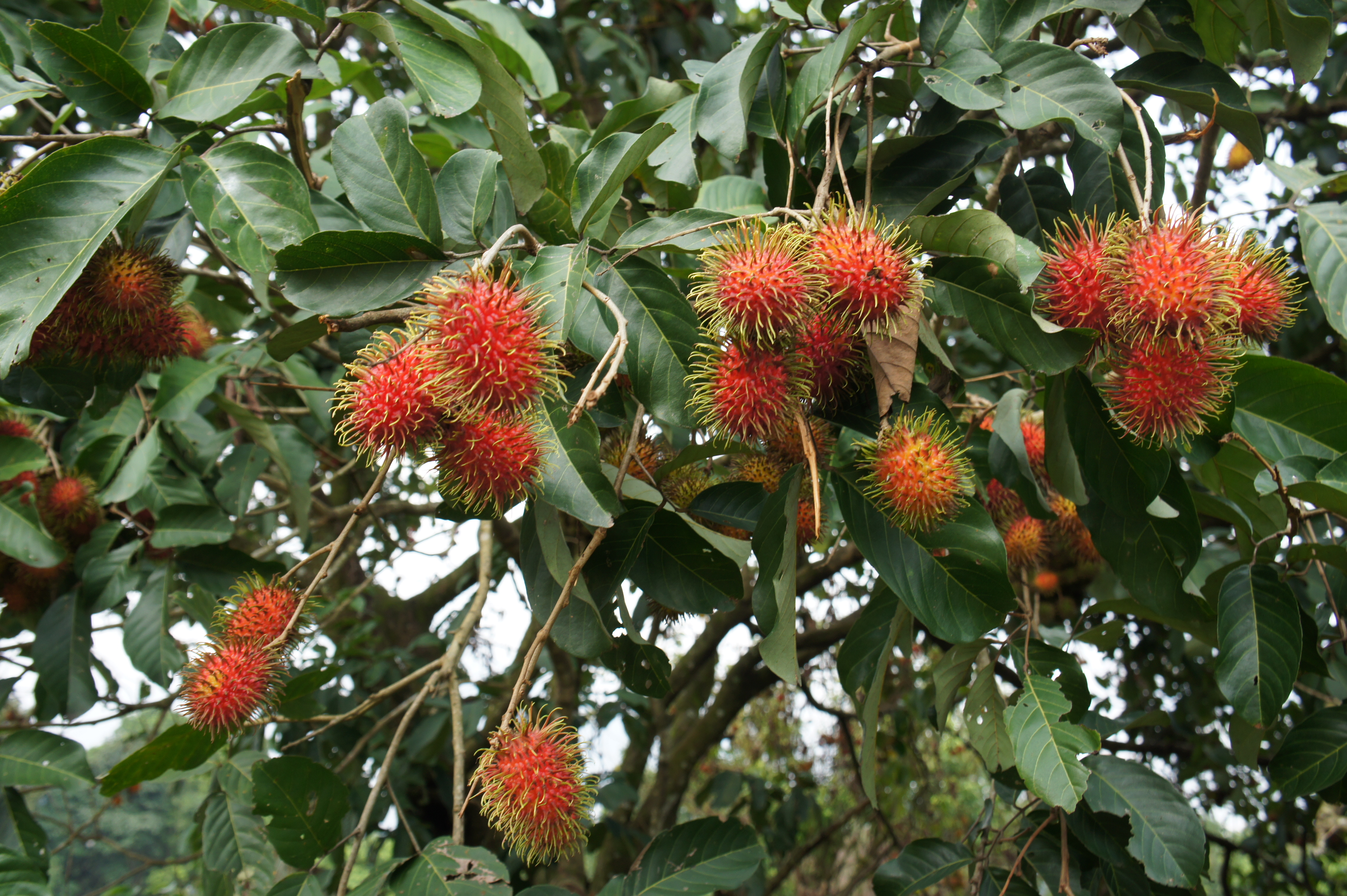 Rambutan fruits (Nephelium lappaceum). Location: Serdang, Selangor, Malaysia